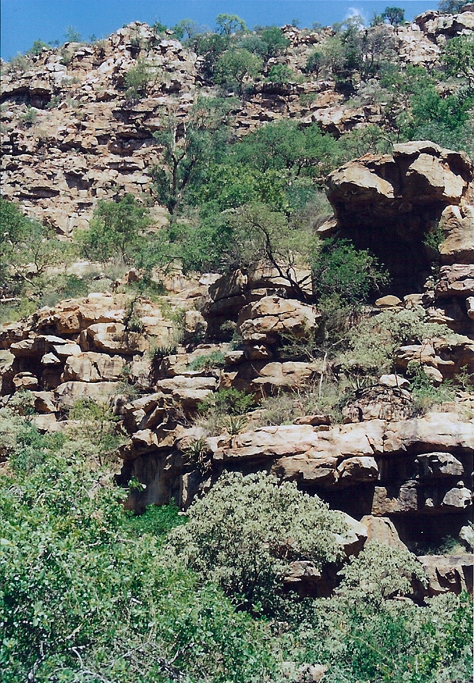 Moremi Gorge, in the Tswapong Hills east of Palapye, Botswana. The porous rock absorbs rainwater, which then seeps out forming permanent cascades and pools. The hills provide one of Botswana's two breeding sites for the endangered Cape vulture. Taken February 2005 on film.